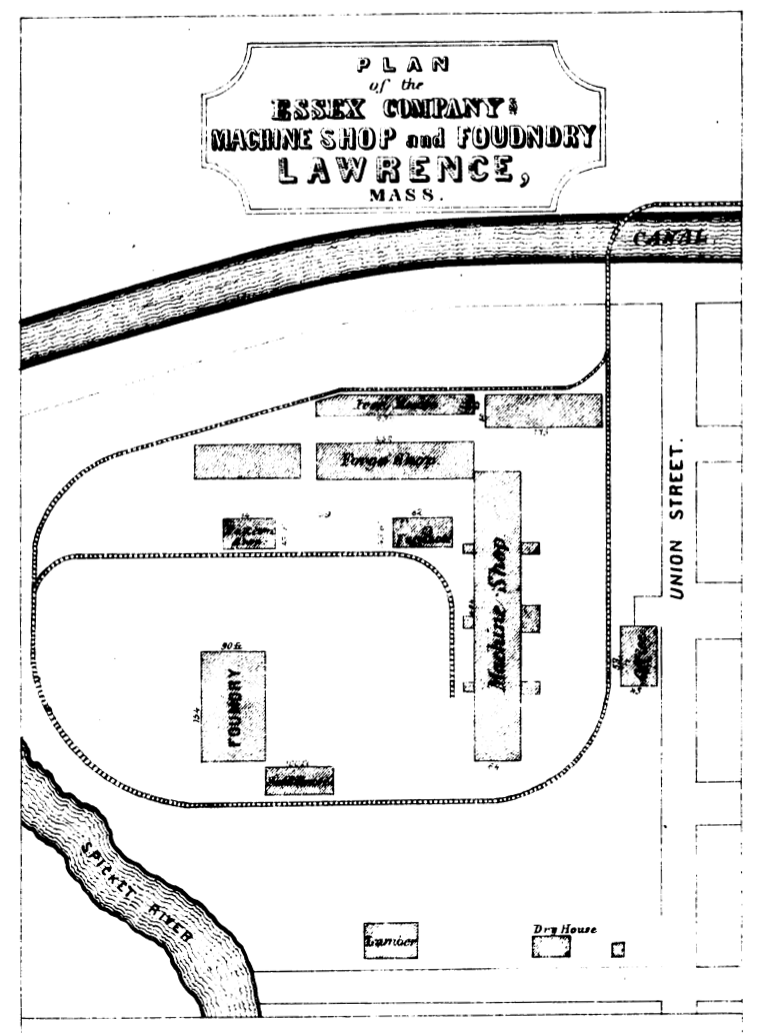 Map of the Essex Company complex (Lawrence, Massachusetts) as it appeared in 1850. The machine shop is extant and is listed on the National Register of Historic Places. Note that north is to the bottom of the site plan.